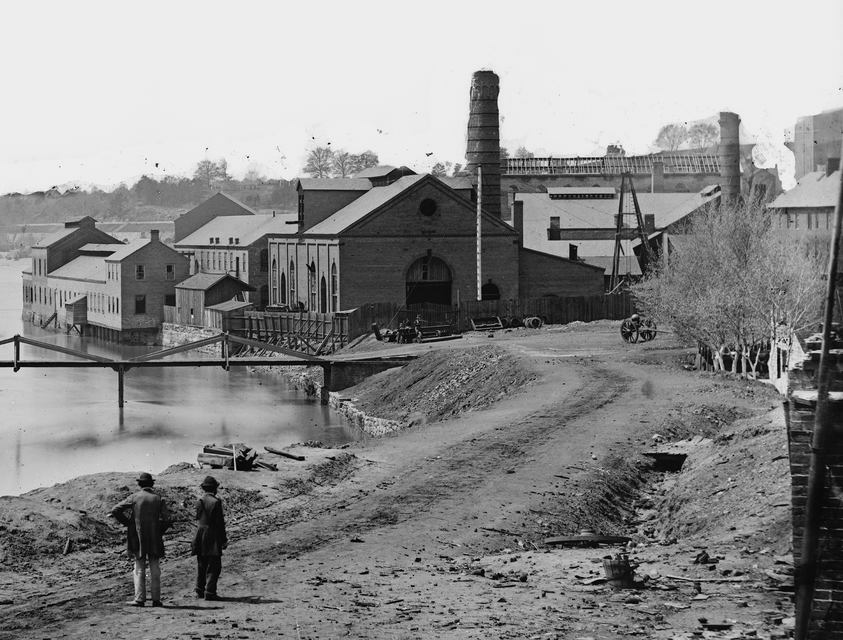 Cropped detail of a photograph of the Tredegar Iron Works in Richmond, Va., taken after the fall of Richmond in April 1865, focusing on the iron work structures.